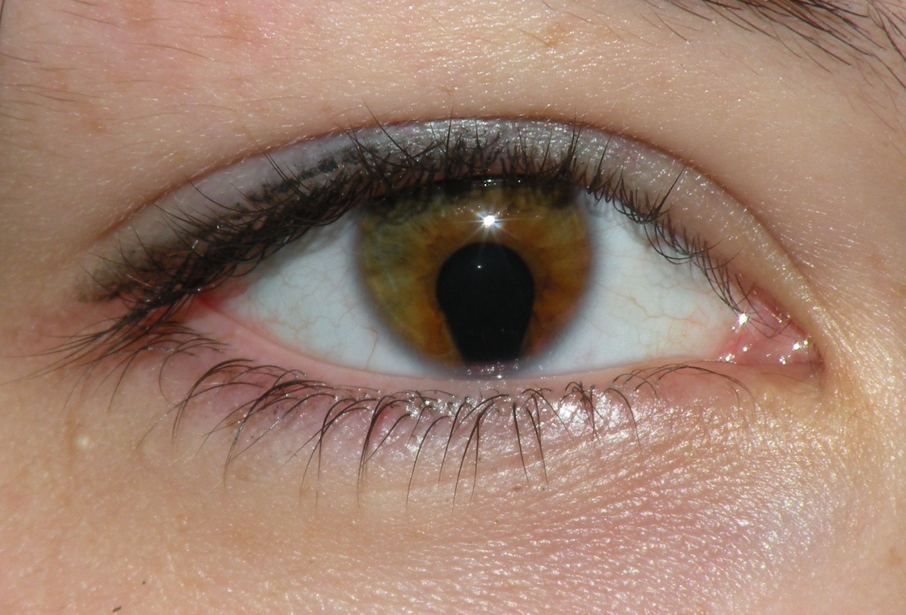 Coloboma of the iris, woman 16 years old